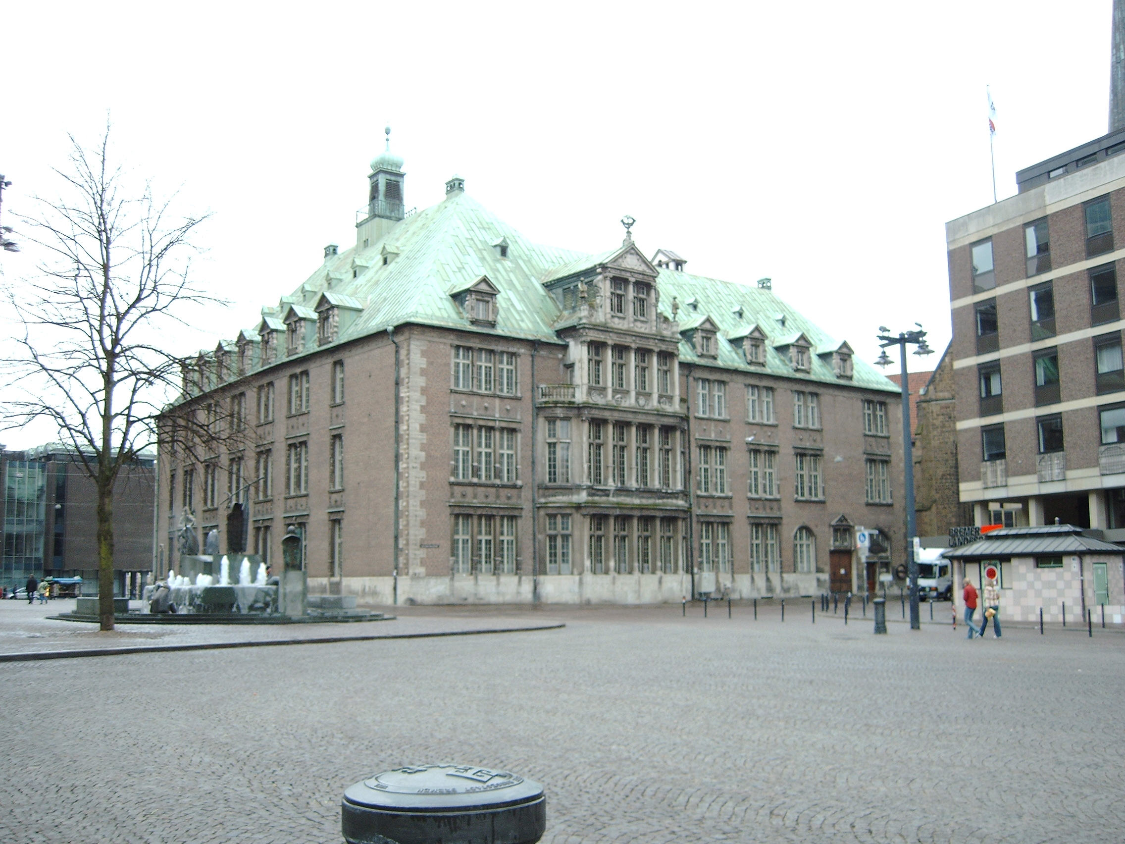 Town Hall, Bremen, Germany